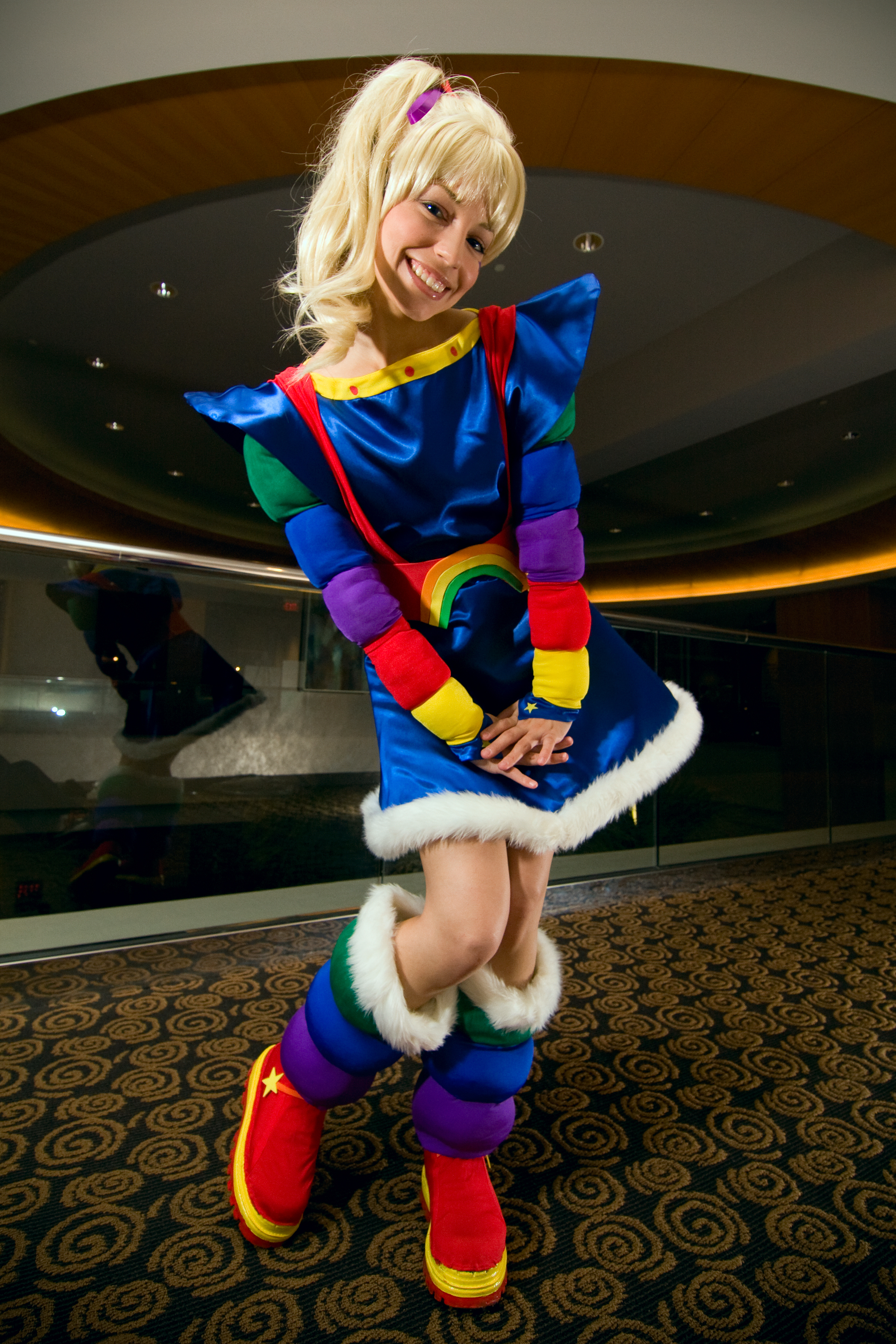 Rainbow Brite cosplayer, Youmacon, 2008